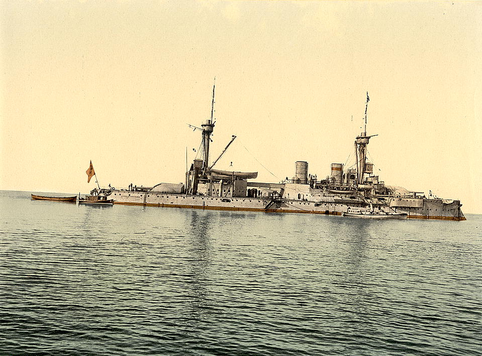 SMS Kurfürst Friedrich Wilhelm